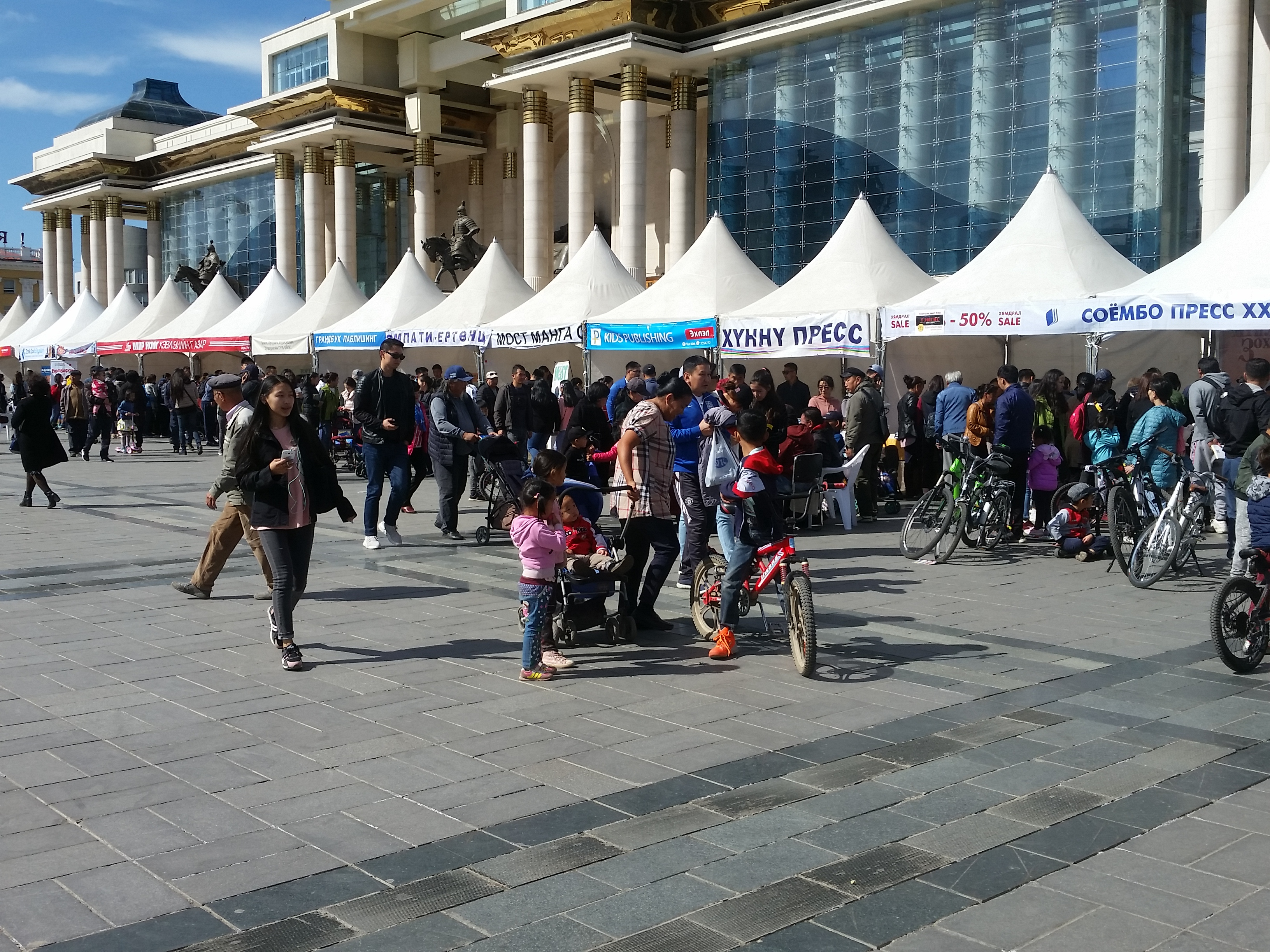 Ulaanbaatar book fair 2019 held in Ulaanbaatar, Miongolia.